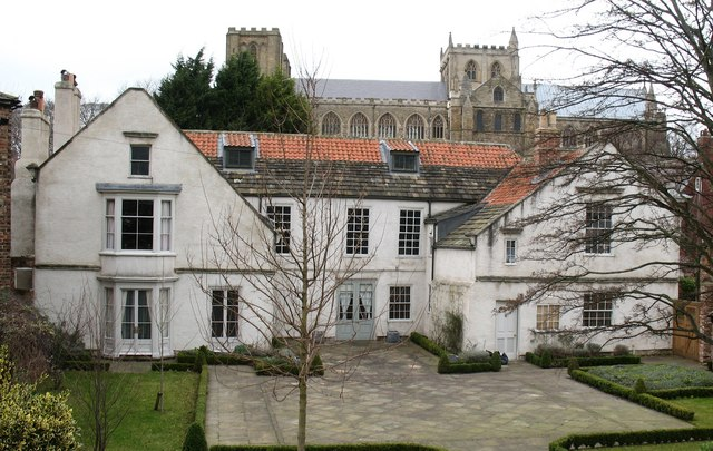 Thorpe Prebend House. Ripon, Yorkshire, Great Britain. One of the oldest and most historic houses in Ripon. It was rebuilt in 1609 and it is said that King James 1 and Mary Queen of Scots stayed here. A 'prebend' was an ecclesiastical estate that provided the church and clergy with funds.